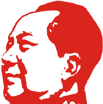 Mao Zedong